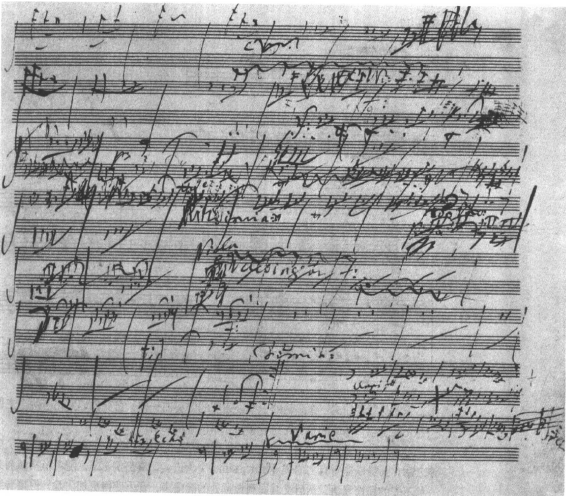 Beethoven 6.Sym Script